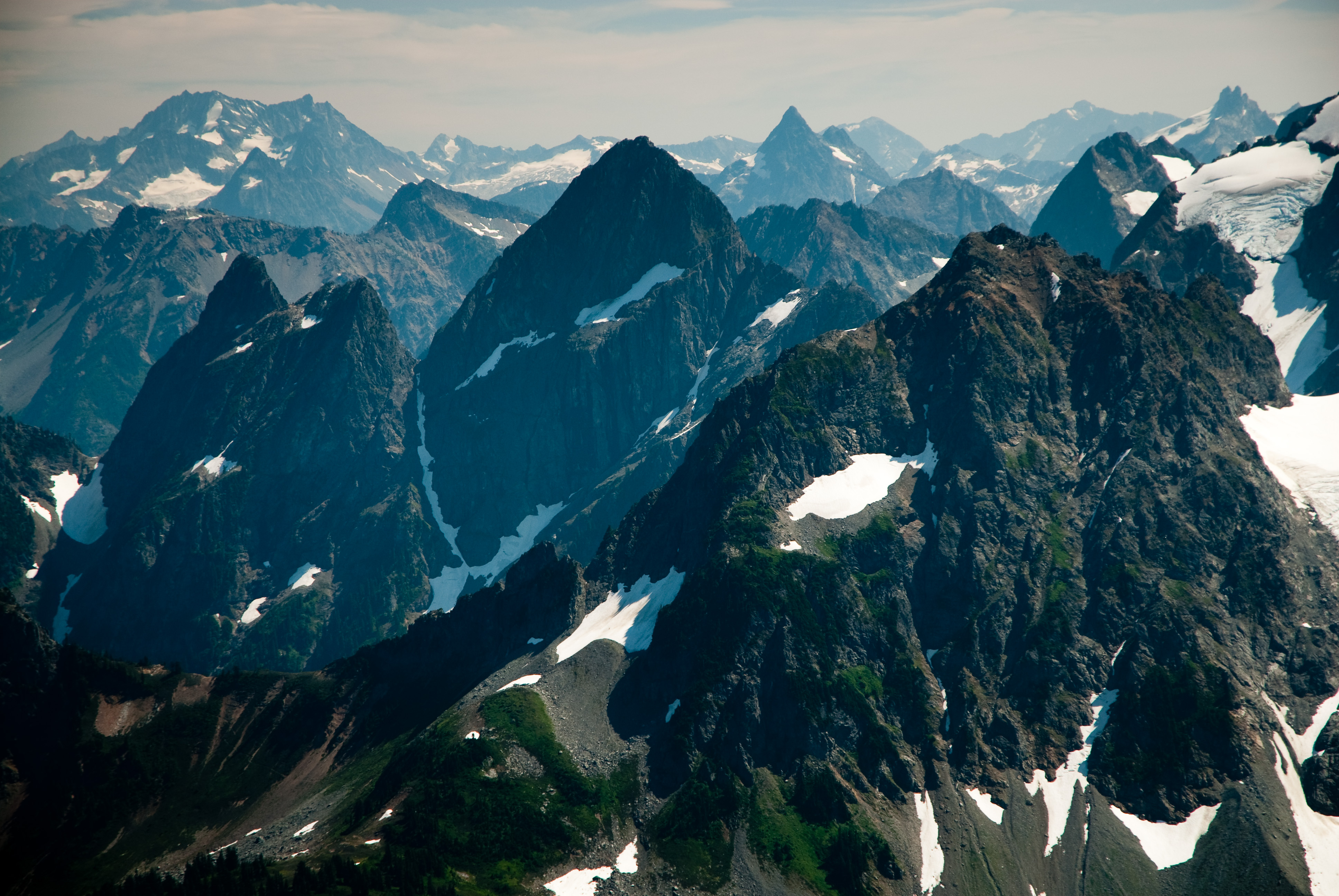 View from North Cascades Pass